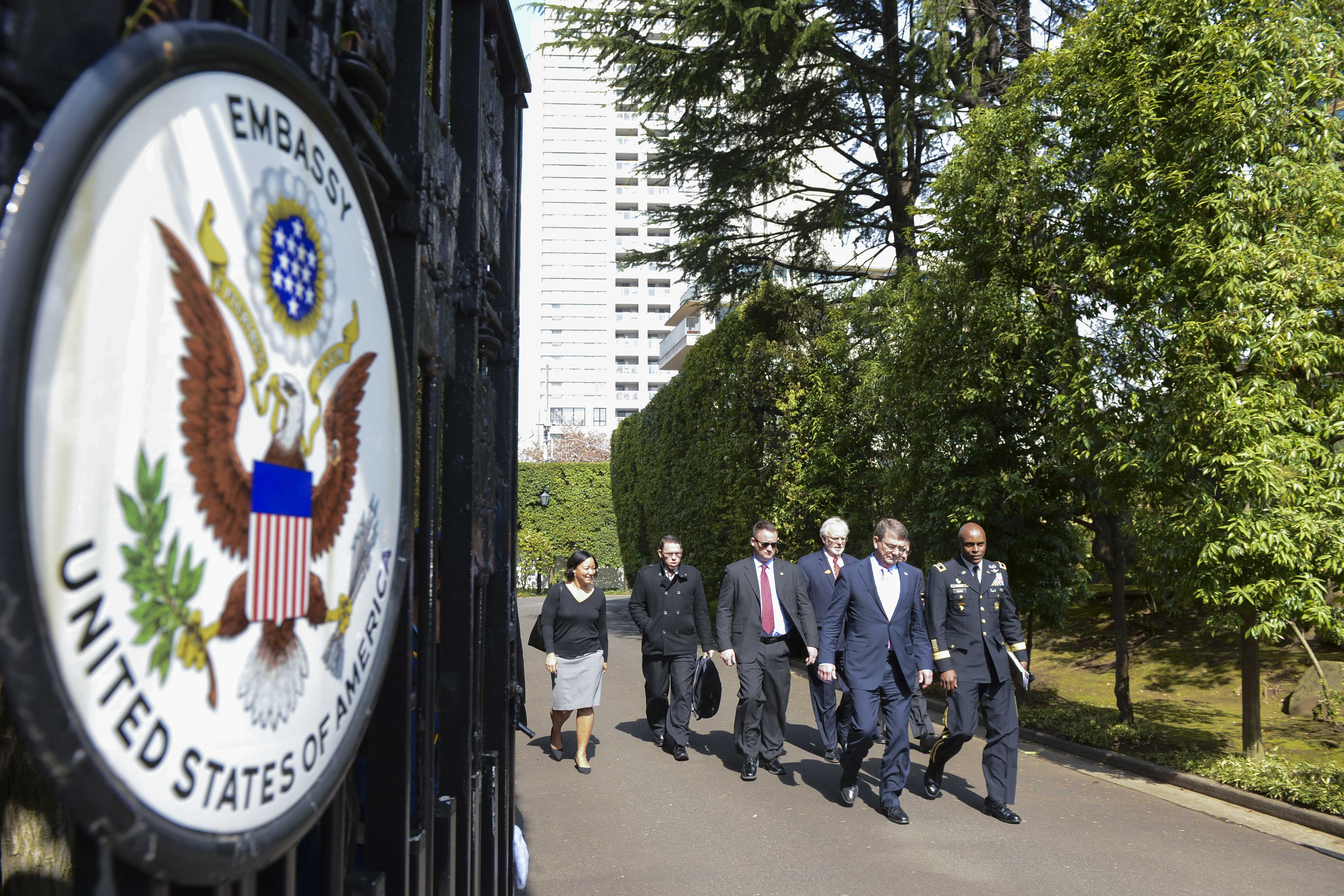 Secretary of Defense Ash Carter leaves the United States Ambassador's Residence after a formal breakfast with Ambassador Caroline Kennedy in Tokyo, Japan April 9, 2015. Carter is making the first U.S. Defense Secretary visit to Japan since the snap elections in late December that saw the re-election of the Liberal Democratic Party. Carter is on a visit to the U.S. Pacific Command Area of Responsibility to make observations for the future force and the rebalance to the Pacific. DoD photo by Petty Officer 2nd Class Sean Hurt/Released.